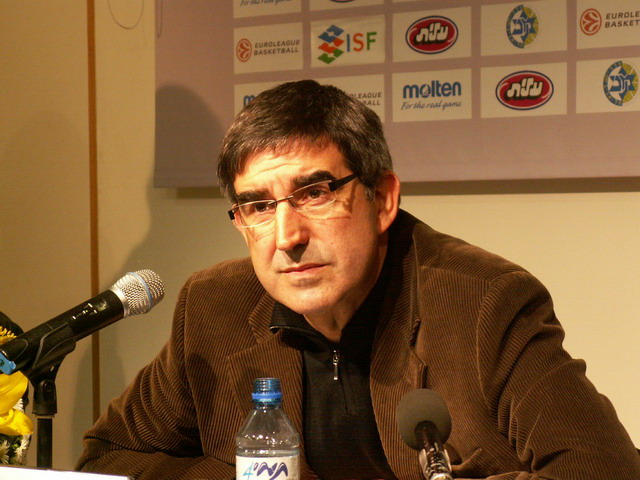 ג'ורדי ברתומיאו, הקומישינר של היורוליג צולם על-ידי אבי קדמי This picture was taken by Avi Kedmi. In this picture , the well - known Euroleague clown , who detests Panathinaikos because he can not stand them winning every single year , is being shown.